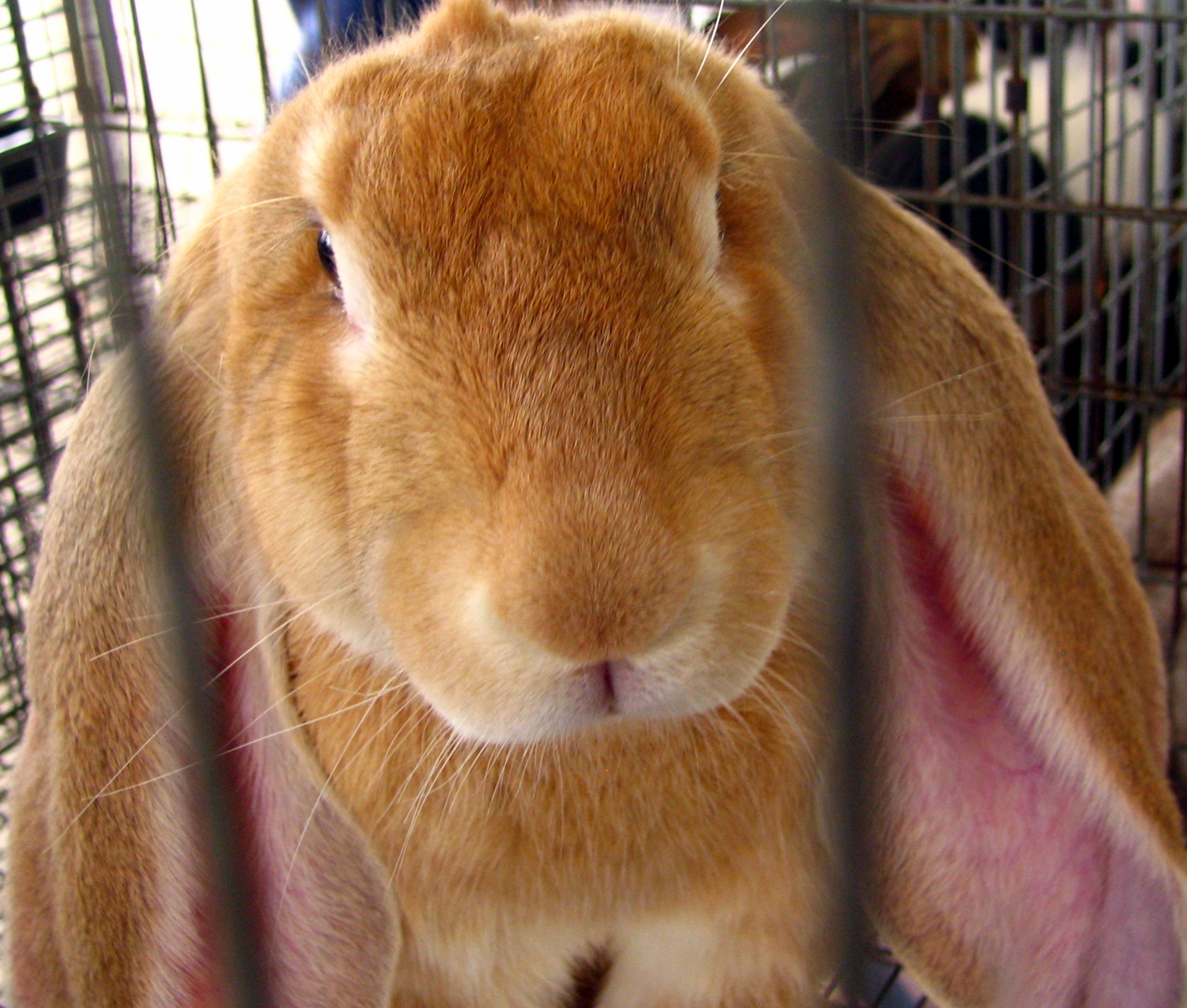 "in the rabbit barn at the 2006 Wilson County Fair"